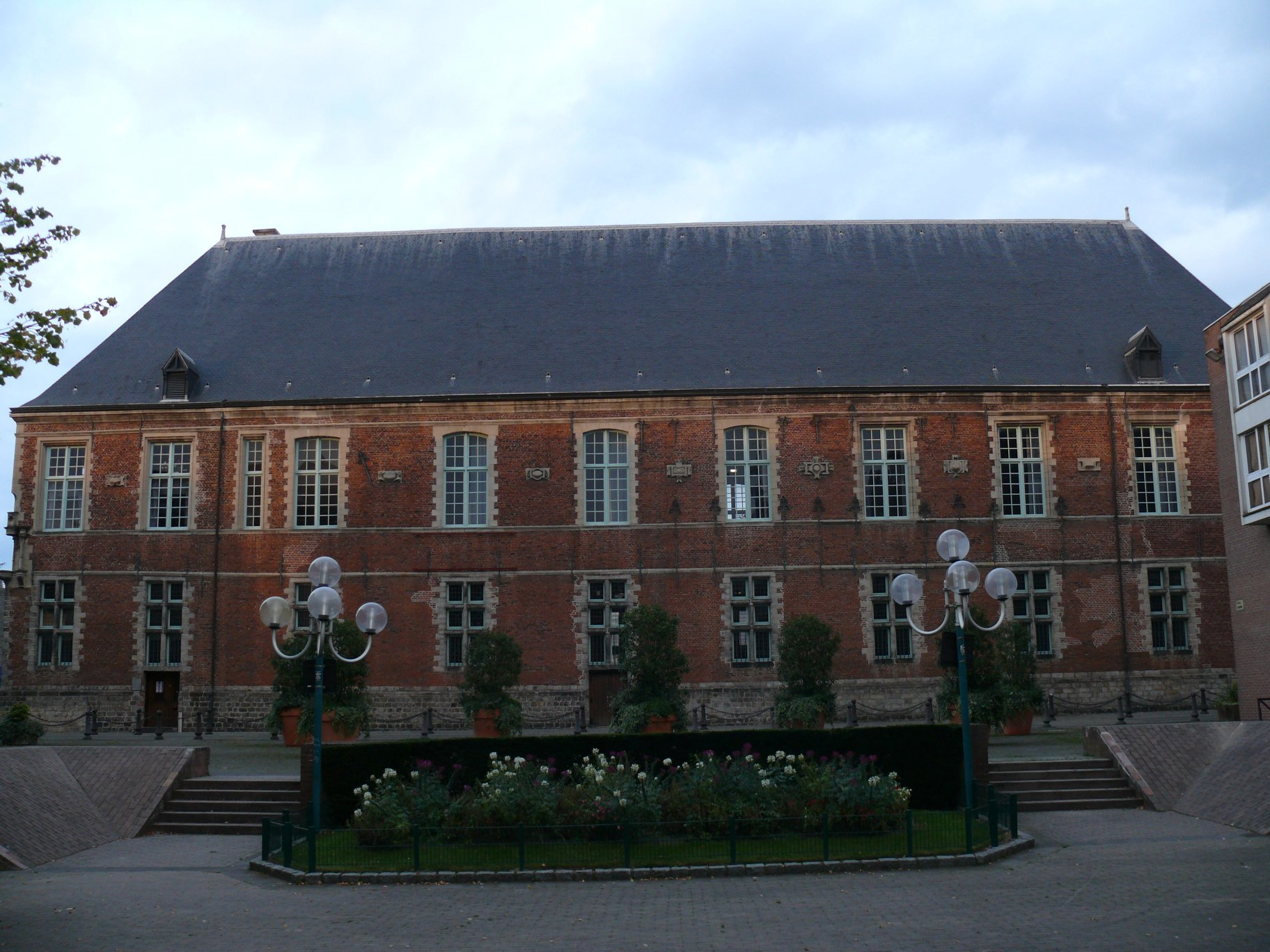 The Anchin rooms of Douai (Nord, France).